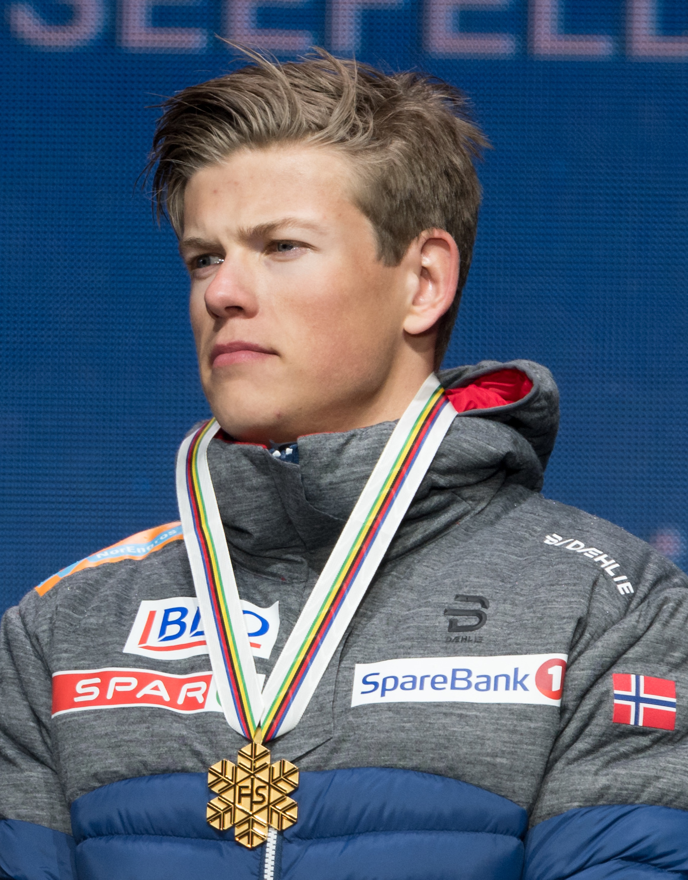 FIS Nordic World Ski Championships Seefeld 2019 - Medal Ceremony at the Medal Plaza. Picture shows Emil Iversen (NOR), Martin Johnsrud Sundby (NOR), Sjur Roethe (NOR), Johannes Hoesflot Klaebo (NOR).